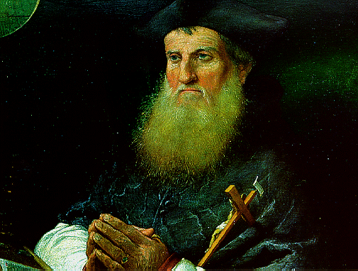 Portrait of Toma Nigris